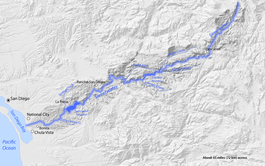 Map of the Sweetwater River watershed in southern California, USA